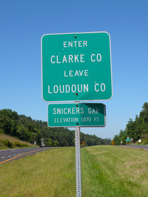 Snickers Gap where Virginia State Route 7 peaks before descending into Clarke County and the Shenandoah Valley